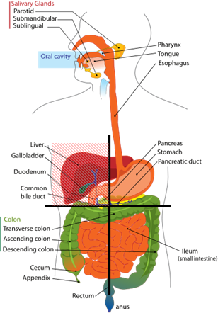 image of the abdominal RUQ containing Liver, Gall bladder with biliary tree, Duodenum, Head of pancreas, Hepatic flexure of colon